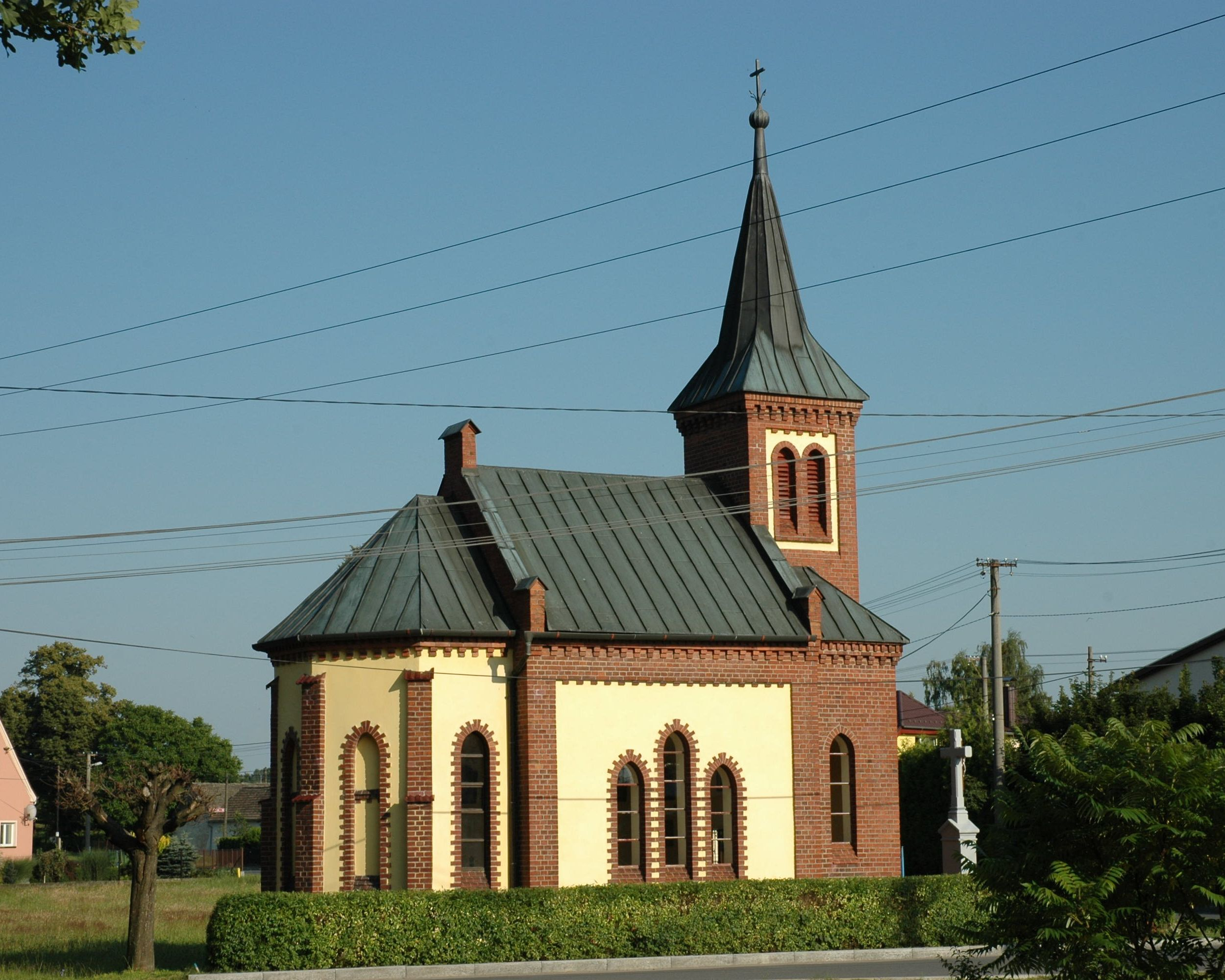 St. Joseph's Chapel, Štěpánkovice-Svoboda, Czech Republic